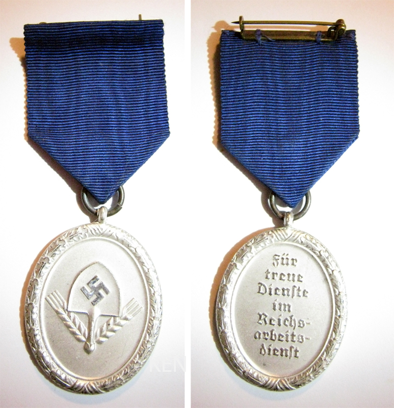 GERMAN STATE LABOUR SERVICE AWARD - SILVER (12 year service)